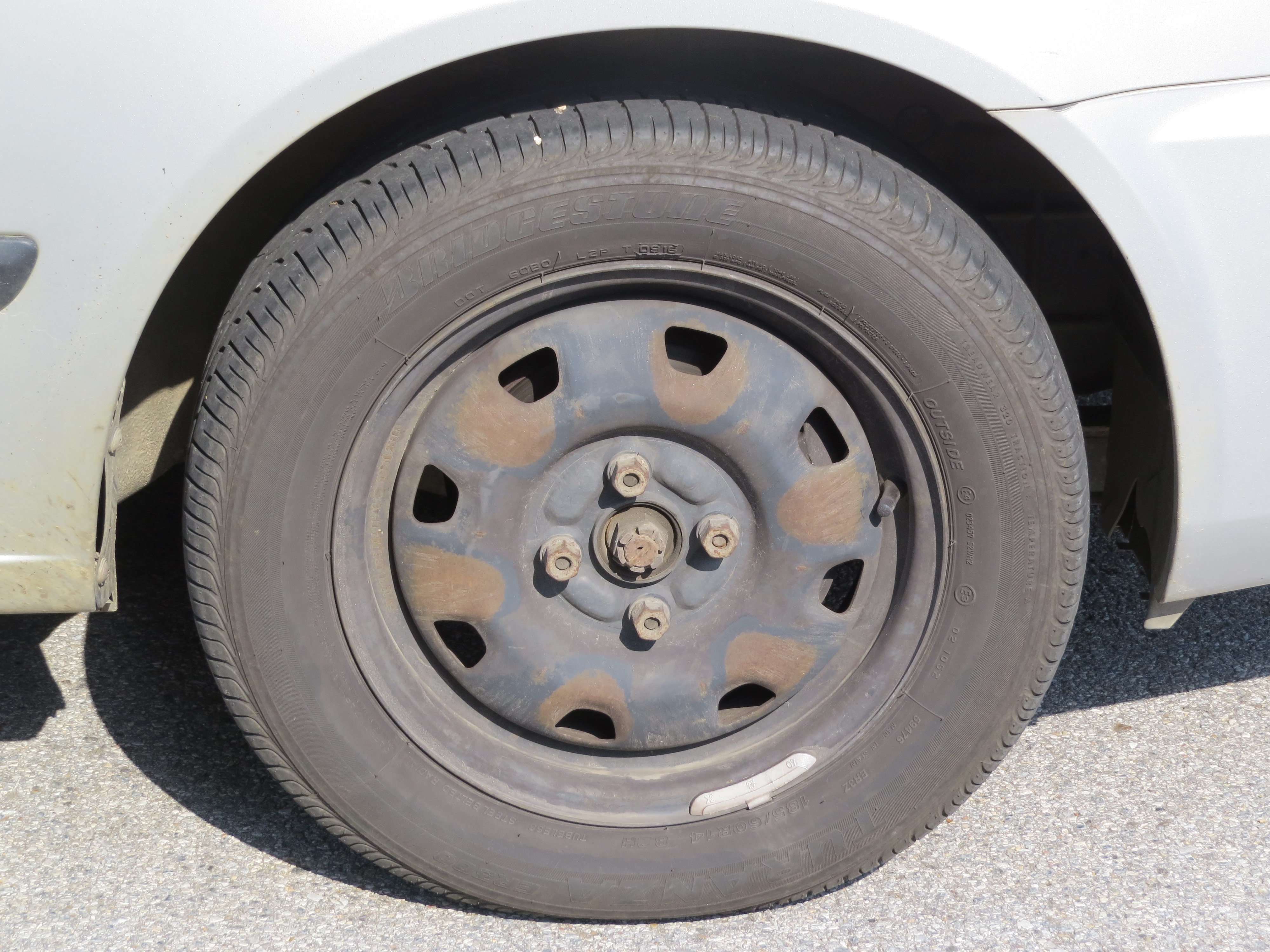 Bridgestone Turanza ER 300 185/60 R 14 82 H tire at Bahnhof Stockerau